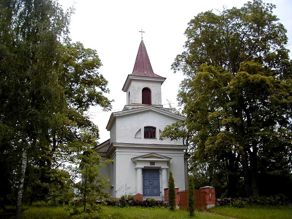 Lutheran church in Elkšņi, Latvia